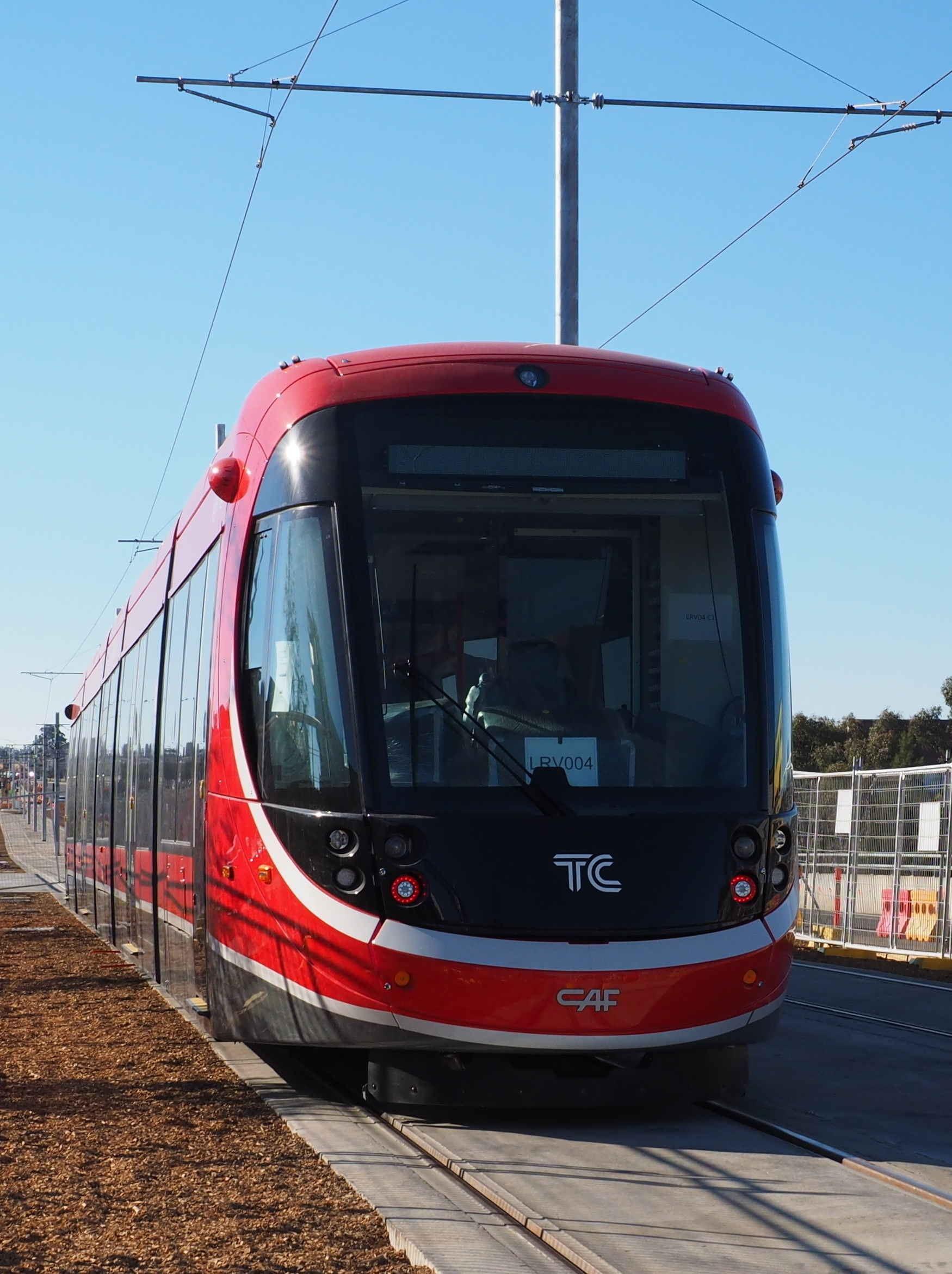 Front view of an Urbos 3 on the test track in Franklin